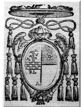 Coat of arms of Agostino Spinola